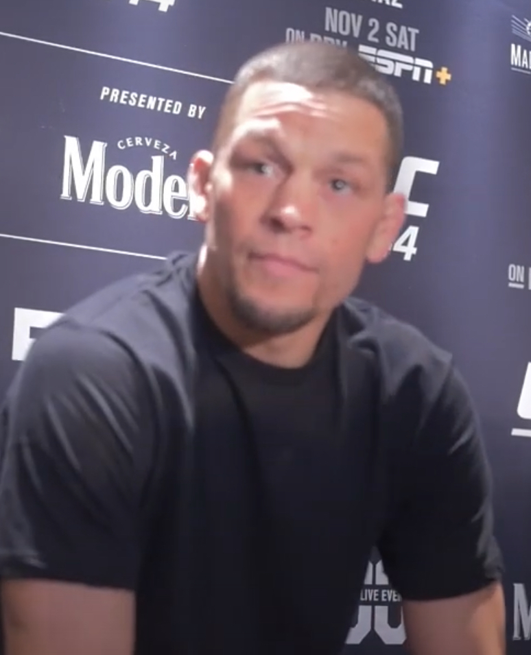 Nate Diaz touched on a bunch of different subjects during the UFC 244 Media Day in New York City. Except from his BMF title fight against Jorge Masvidal - and the USADA issue that almost got him pulled from it, Diaz also spoke about his vegan diet, why he no longer wants to fight UFC lightweight champion Khabib Nurmagomedov and much more. Check out Nate Diaz's full media scrum ahead of Saturday's UFC 244 in Madison Square Garden!